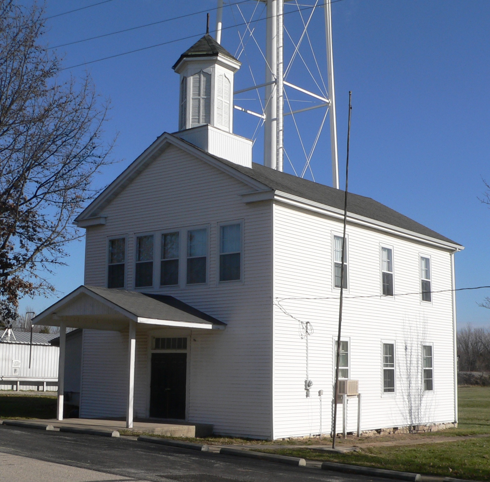 High Hill school, in High Hill, Missouri. The building faces west-northwest.